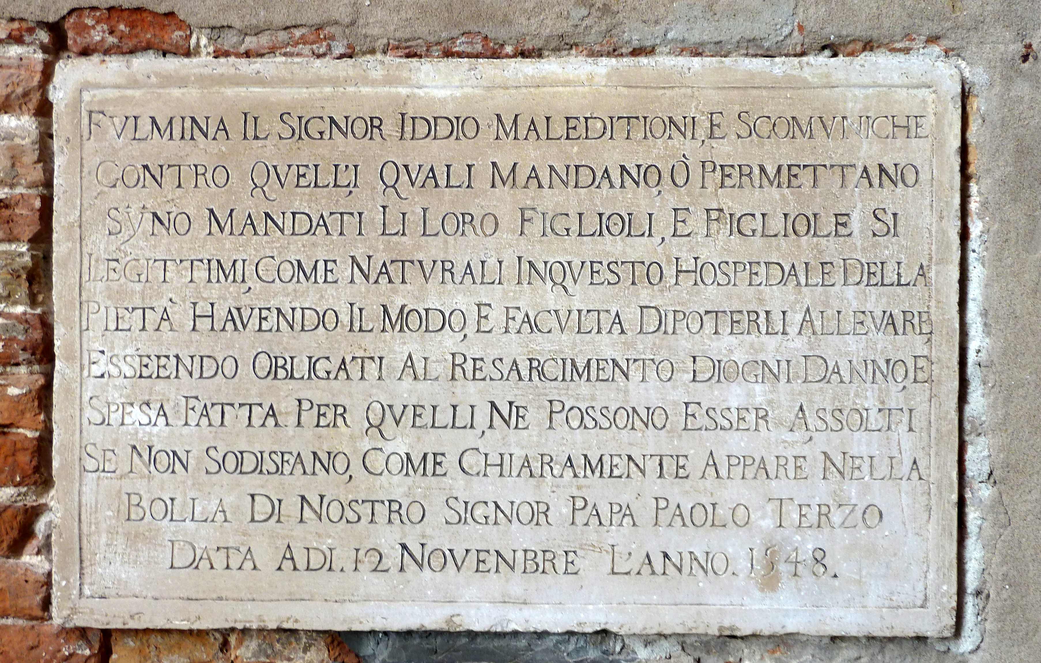 Corner of the orphanage of the Chiesa della Pietà in Venice where the foundling wheel once stood. The inscription states: "The Lord God strikes with curses and excommunications those who send or permit to be sent their sons, or daughters if legitimate, as bastards to this Hospital of Piety having the means and power to raise such, being obligated to compensation of any damages and expenses incurred for them, neither may they be absolved if this is not fulfilled, as appears clearly in the bull of our lord Pope Paul III dated 12 November 1548."